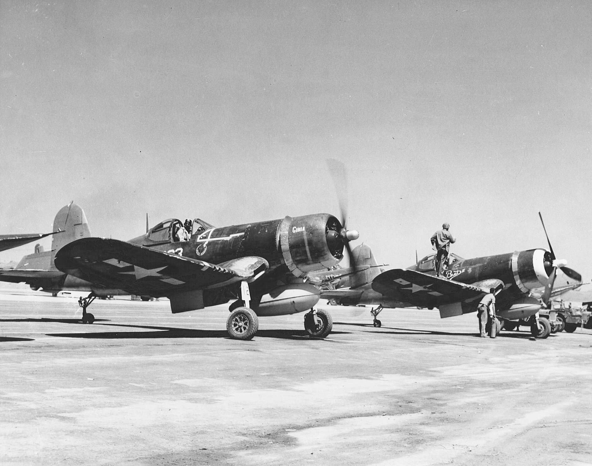 U.S. Marine Corps Vought F4U-1 Corsair aircraft of Marine Fighting Squadron VMF-321 "Hells Angels", 4th Marine Air Wing, on Iwo Jima.